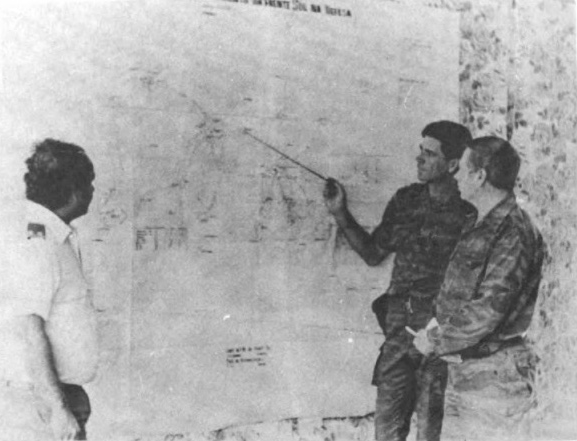 Soviet advisory personnel and training staff planning military operations in Angola, late 1970s or early 1980s.